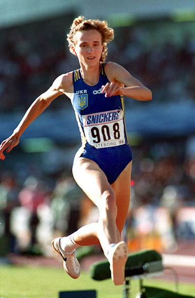 Foto in IAAF Championships 1995